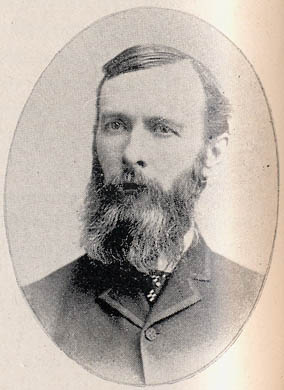 Portrait of H.H.C. Miller (1845-1910), Evanston mayor and educational administrator, from Frances Elizabeth Willard's 1891 A Classic Town: The Story of Evanston by 'An Old Timer', p. 166.